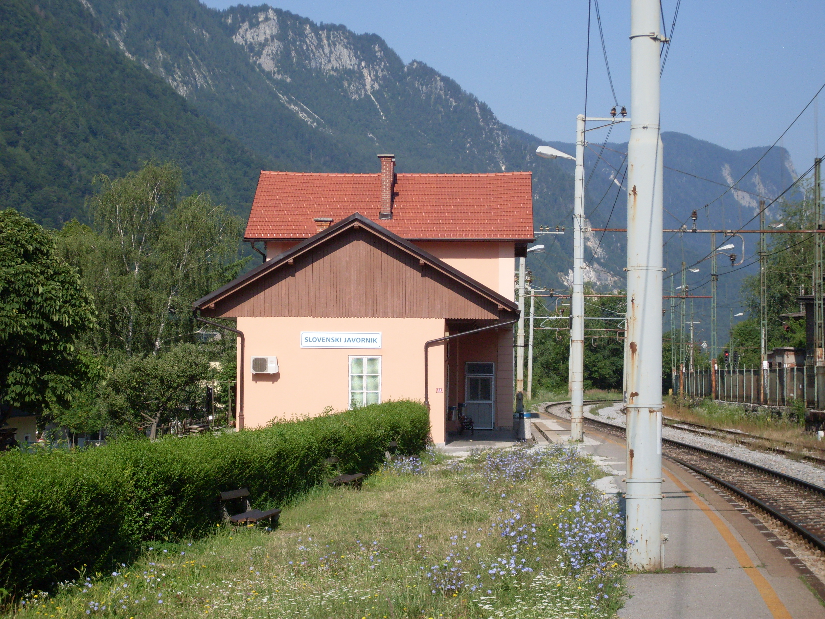 Railway halt in Slovenski Javornik near Jesenice, Slovenia